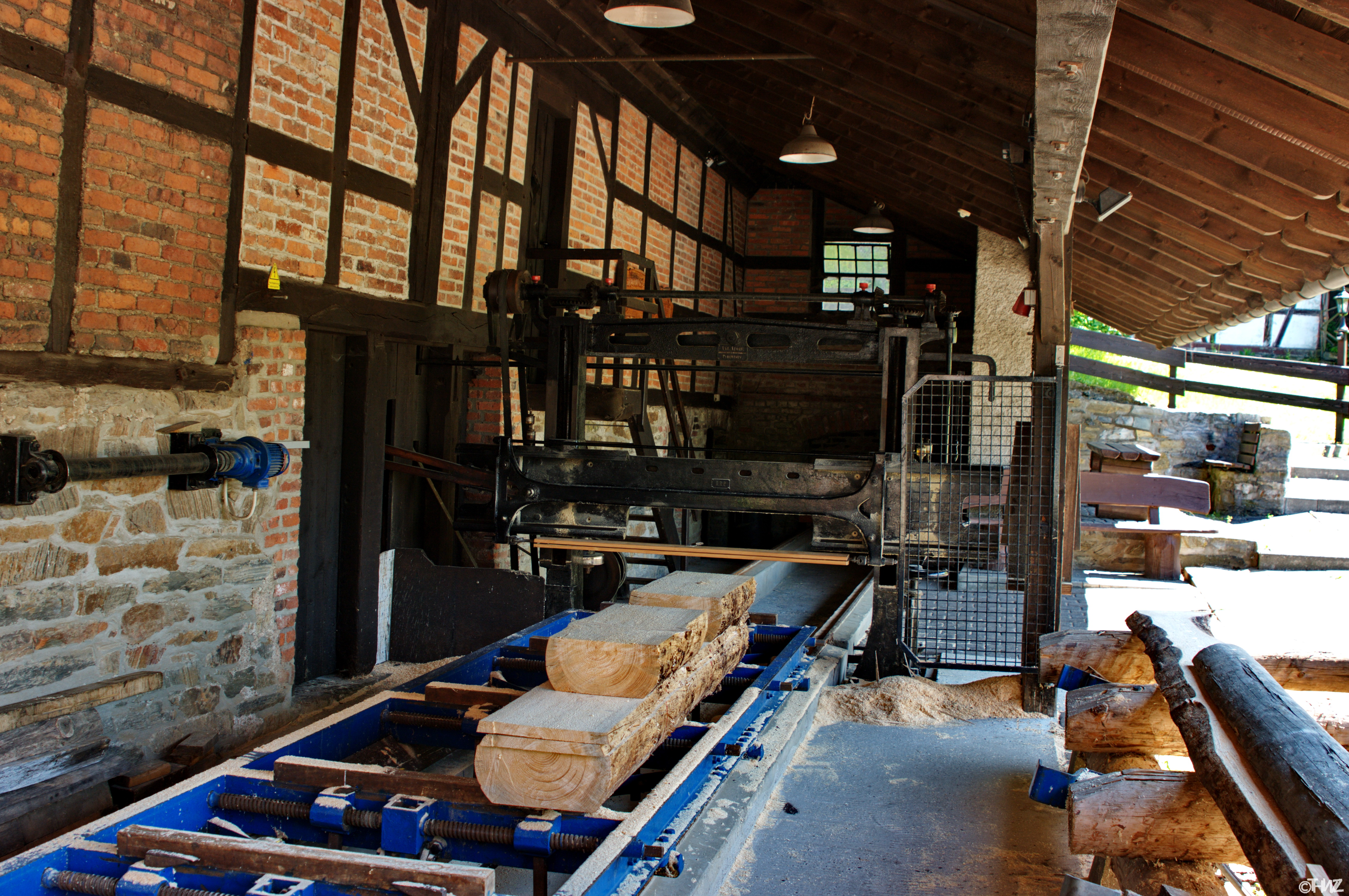 The saw of Stuetings Muehle, a historic sawmill in Belecke in the Sauerland.